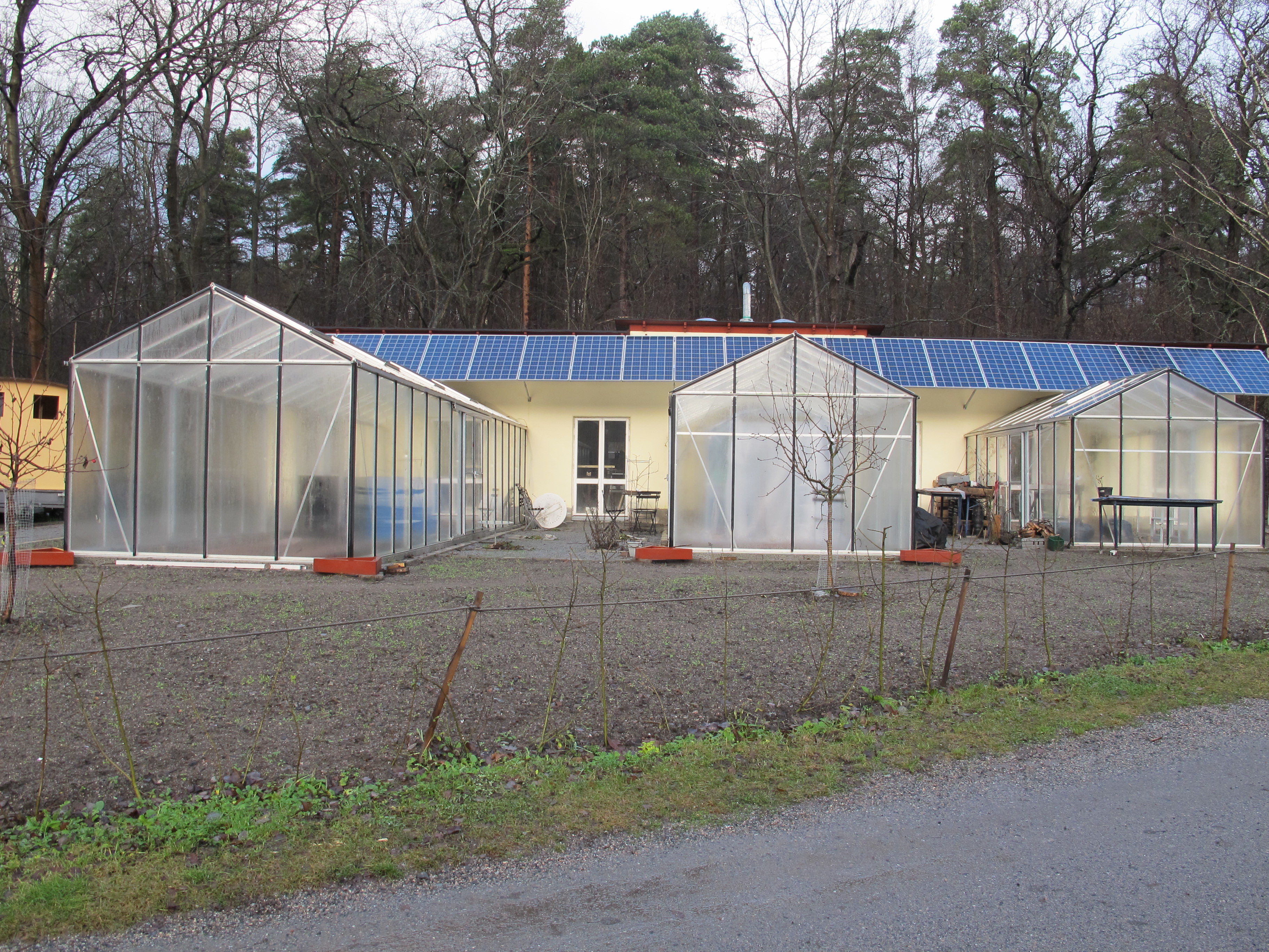 The plant nursery in the bay Vinterviken in Aspudden in Stockholm.